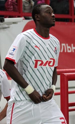 Dame N'Doye with FC Lokomotiv Moscow in 2012.